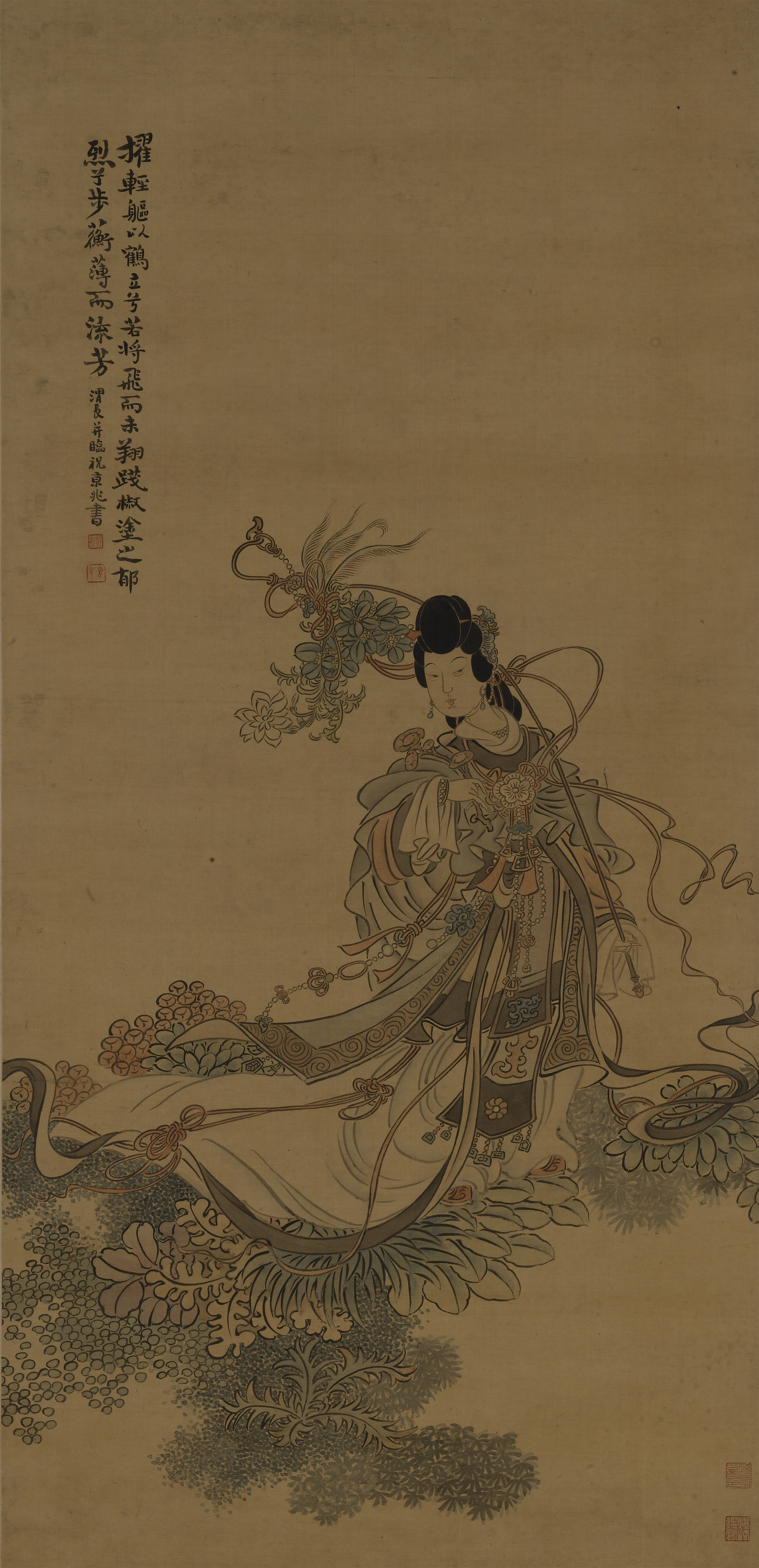 "This painting portrays the beautiful goddess of the Luo River among lush plants in the watery depths of her domain. She is the subject of one of the most romantic poems in Chinese literature, the ‘Goddess of the Luo River Ode’. It is said this ode was composed by Cao Zhi as he returned home from court following the death of his lover, Consort Zhen. She had ended up marrying his brother, the emperor, but she had been forced to commit suicide after she was implicated in a plot. The poet-prince Cao Zhi came to court and obtained her pillow as a keepsake. On his way home he passed the Luo River, where he saw the goddess in a dream, and later composed the ode in his lover’s memory. The inscription above the goddess in the painting includes lines of the ode where she is said to be as light as a crane standing, on the point of taking to their air but not yet flying." —Chester Beatty Library